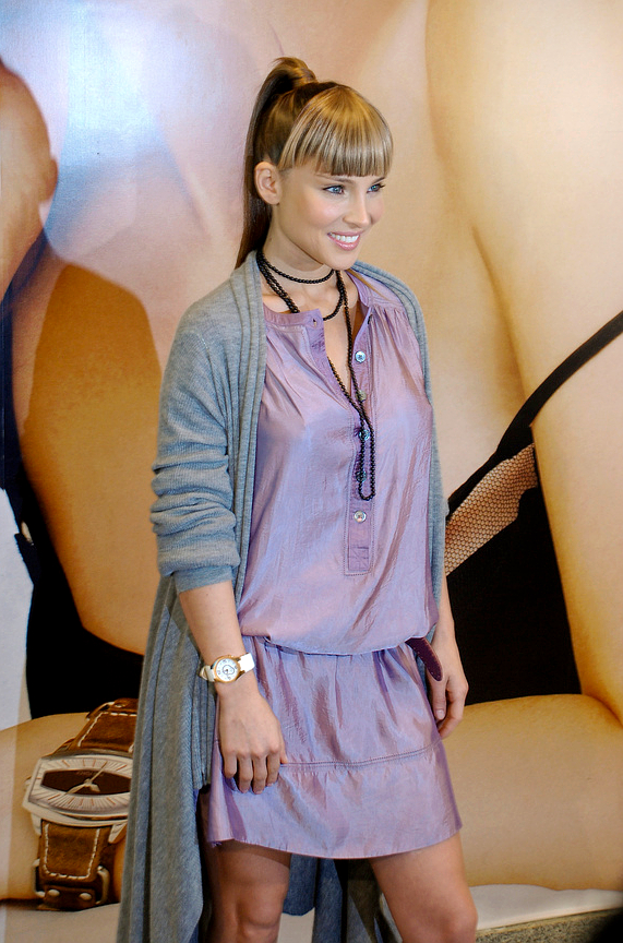 Spanish actress Elsa Pataky.